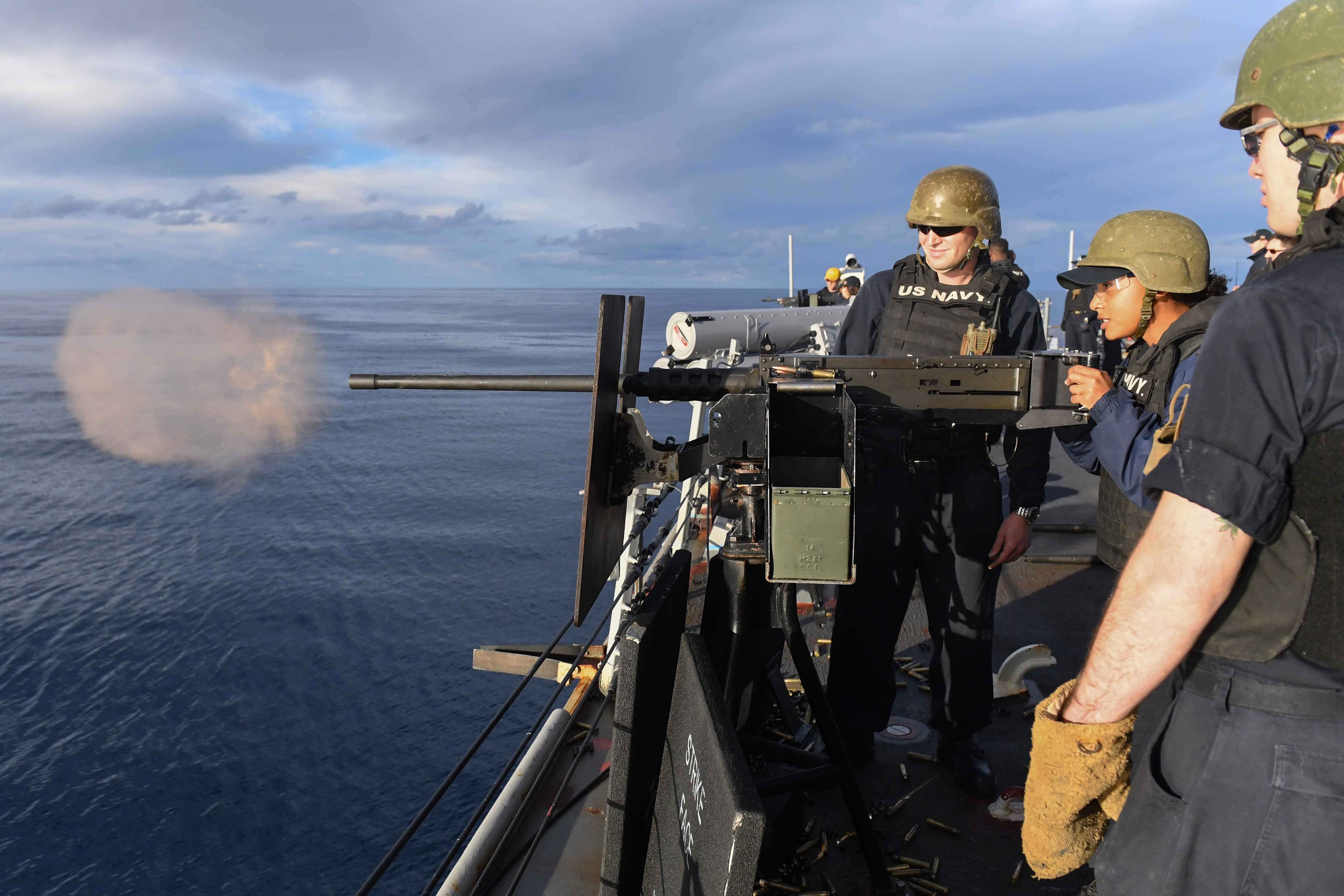 170113-N-KP948-423 MEDITERRANEAN SEA (Jan. 13, 2017) Gunner's Mate 2nd Class Chelsea Ashley, assigned to the Arleigh Burke-class guided-missile destroyer USS Donald Cook (DDG 75), fires an M2 .50 cal. machine gun during a live-fire exrecise. Donald Cook is forward-deployed to Rota, Spain, conducting naval operations in the U.S. 6th Fleet area of operations in support of U.S. national security interests in Europe and Africa. (U.S. Navy photo by Mass Communication Specialist 3rd Class Alyssa Weeks/Released) Unit: Navy Media Content Services DVIDS Tags: USS Donald Cook; United States Navy; NMCS; DVIDS Bulk Import